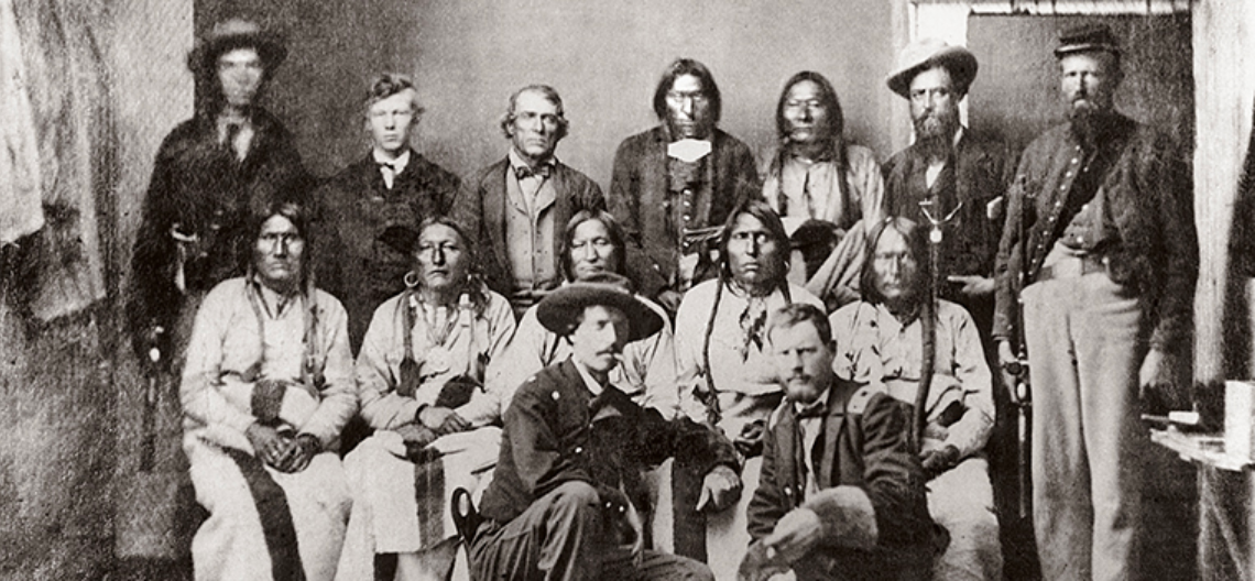 A delegation of Arapaho and Cheyenne leaders met with the U.S. military on Sept. 28, 1864, at Camp Weld, Colo., to seek peace on the plains east of Denver, almost two months before the Sand Creek Massacre. Denver Public Library, Western History Collection.